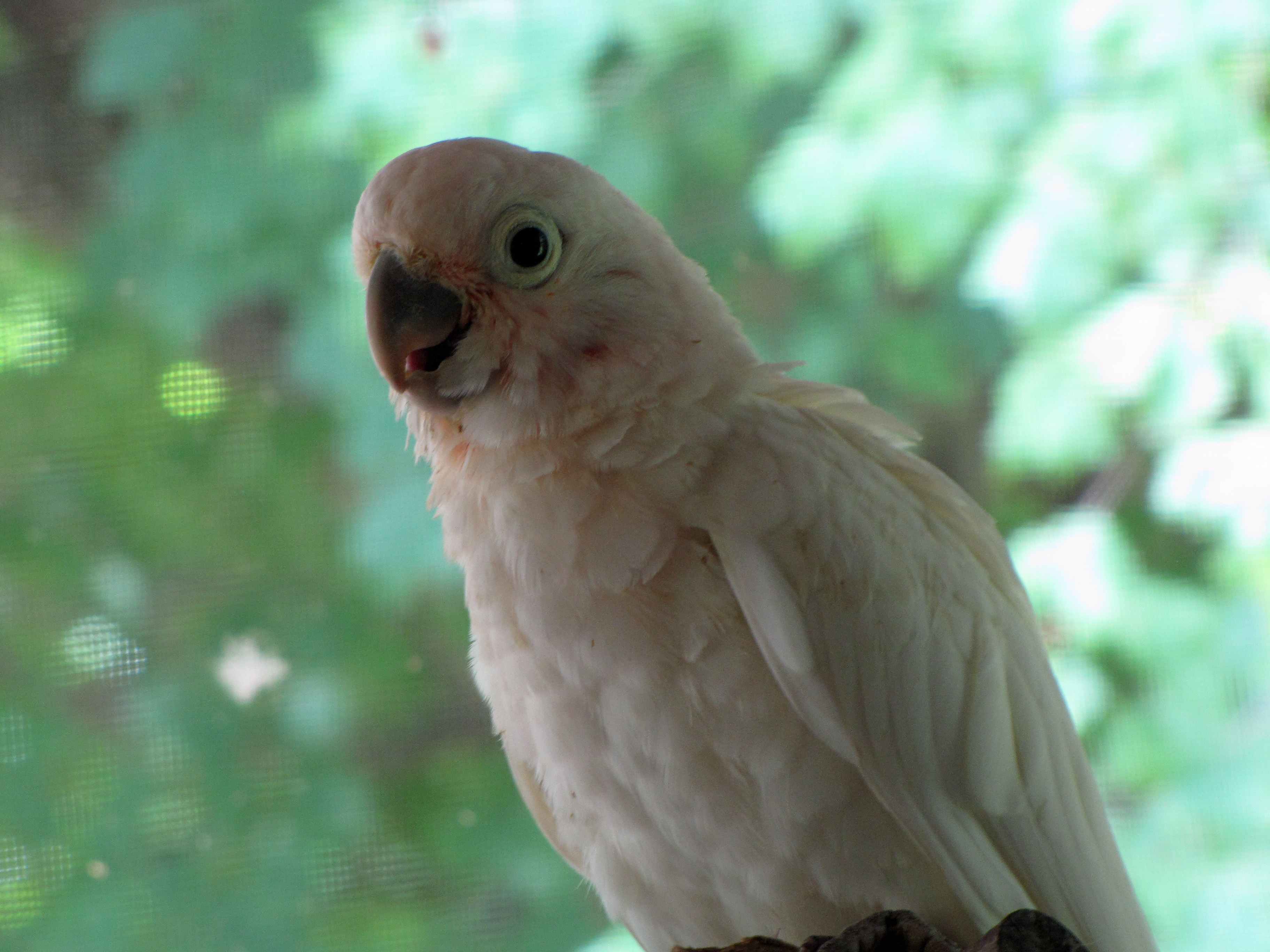 A juvenile Goffin's Cockatoo (also known as Tanimbar Corella and Goffin's Corella).